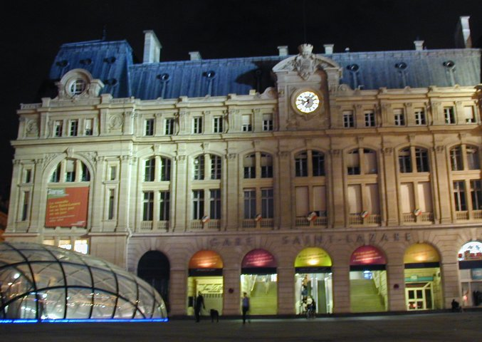 Gare Saint-Lazare in Paris at night